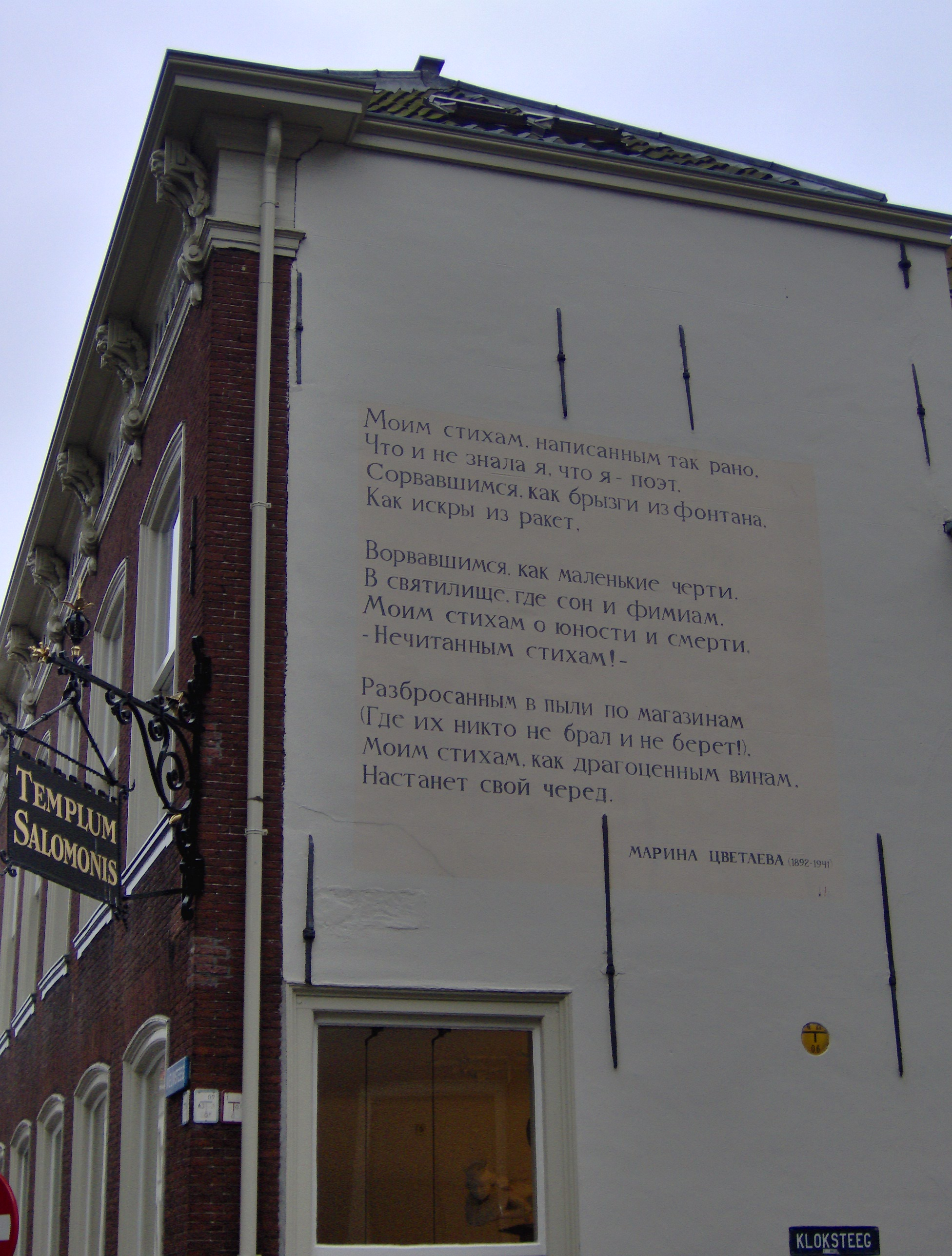 The poem For my poems of the Russian poet Marina Tsvetaeva on a wall of the building at Nieuwsteeg 1, Leiden, The Netherlands.